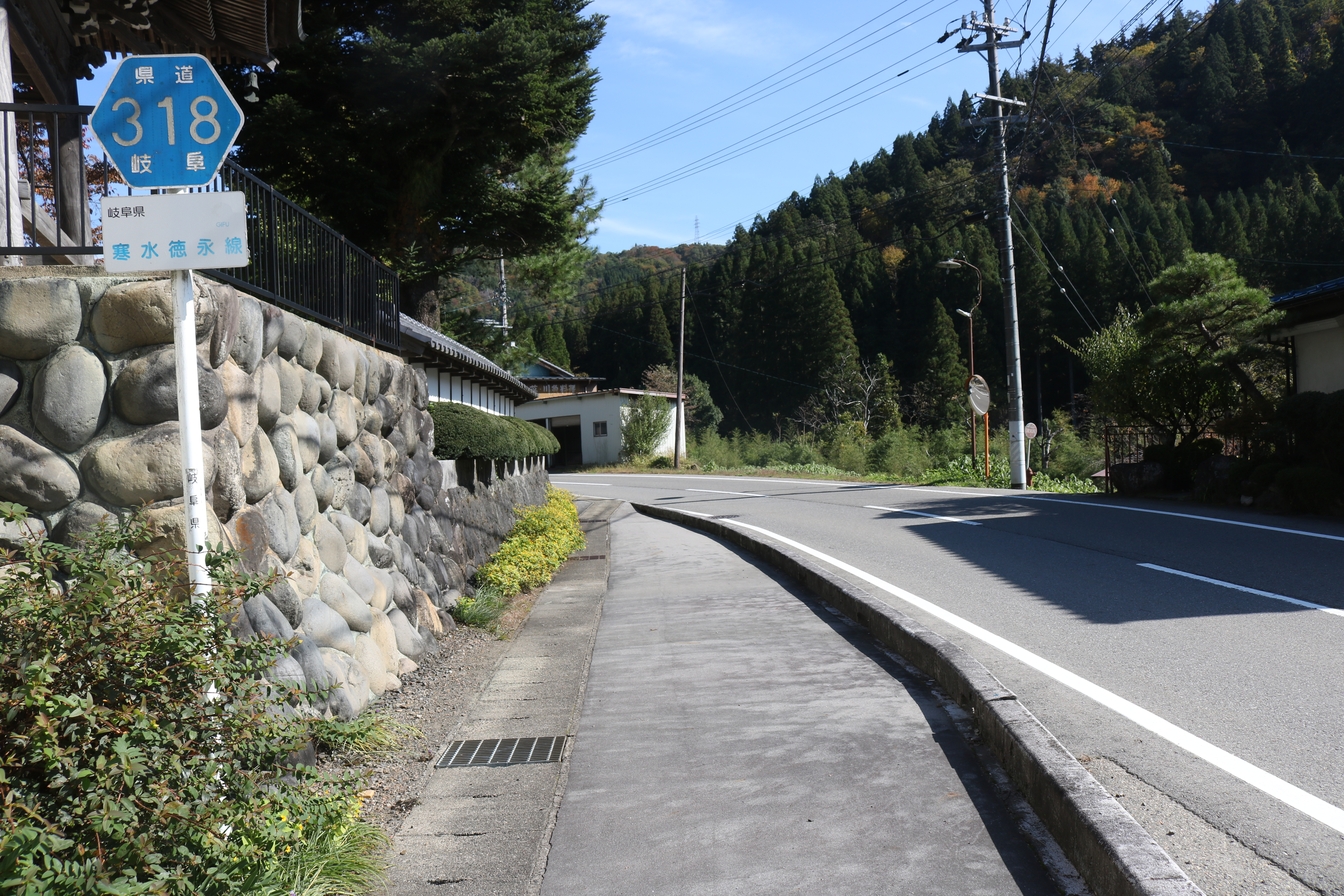 Gifu Prefectural Road Route 318 in Tokunaga, Yamatocho, Gujo, Gifu Prefecture, Japan.